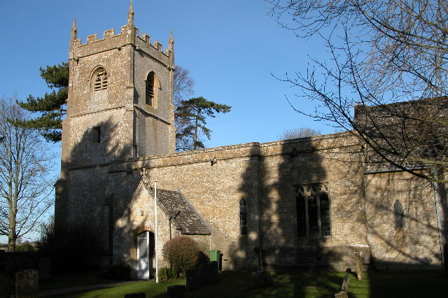 Cold Aston church, Cold Aston, GLoucestershire, England. The church is dedicated to St Andrew.